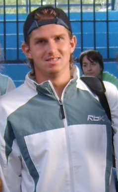 my own camera {bcr }